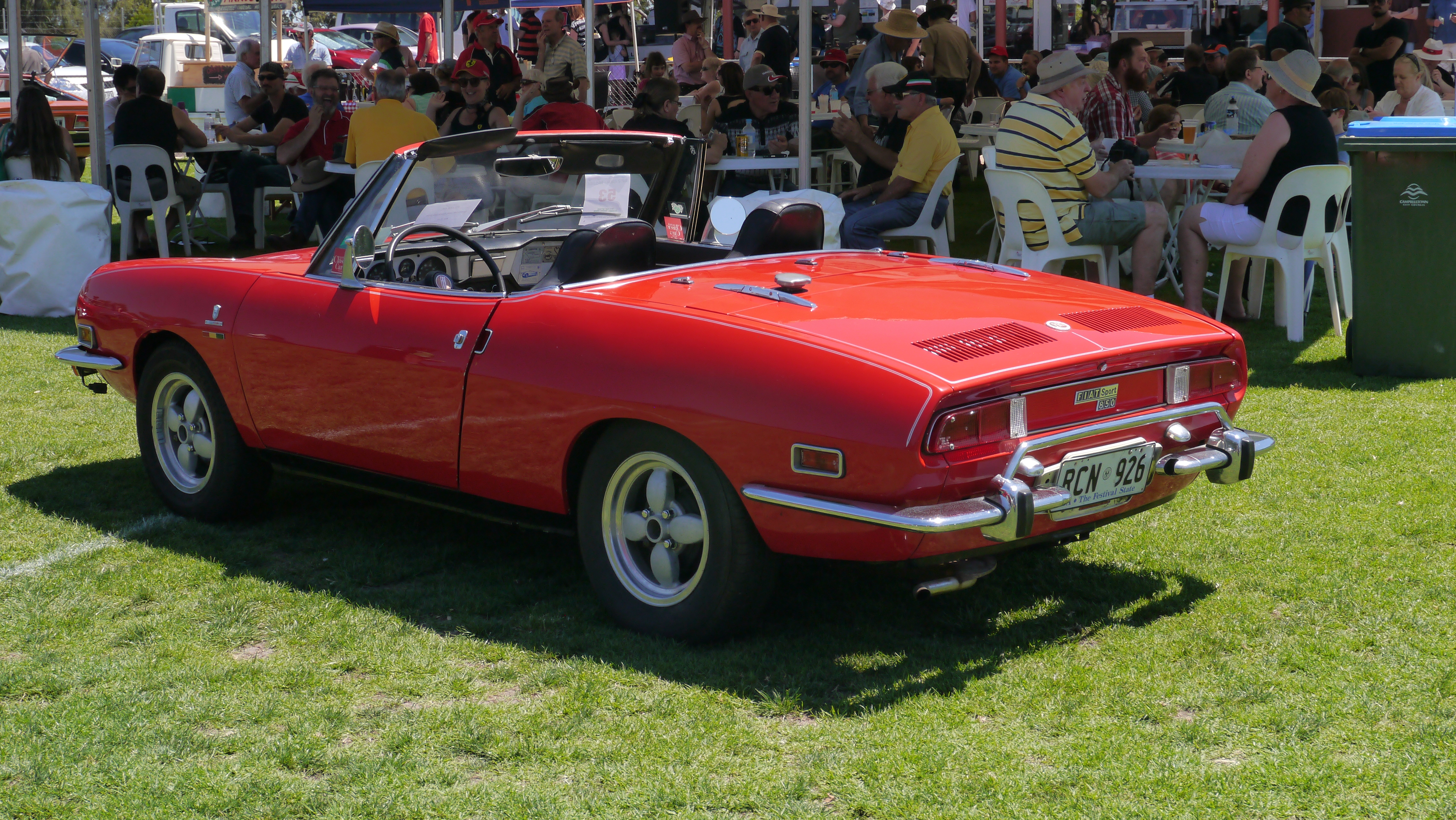 Fiat 850 Sport